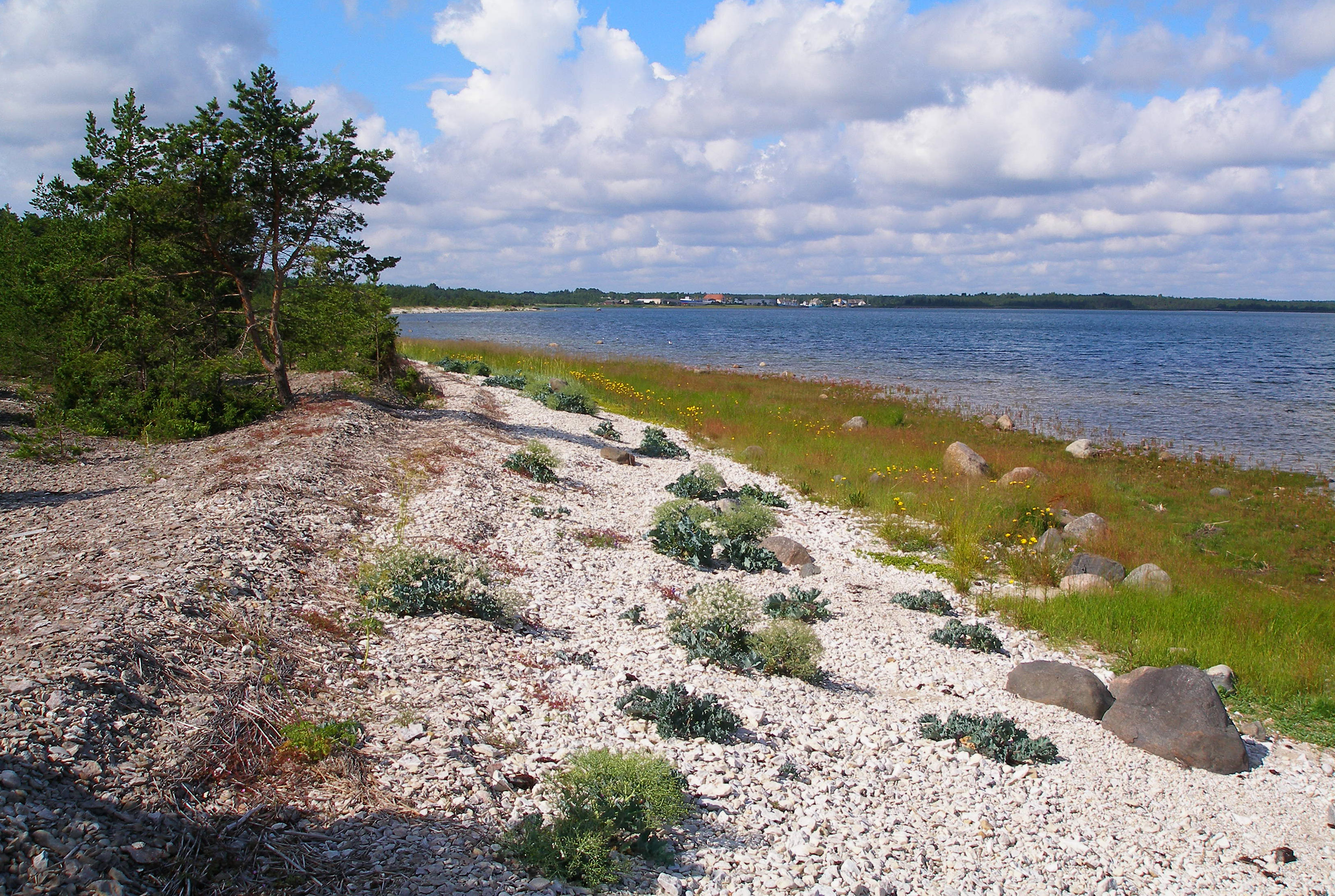 Baltic coast near Suuresadama, Hiiumaa, Estonia.